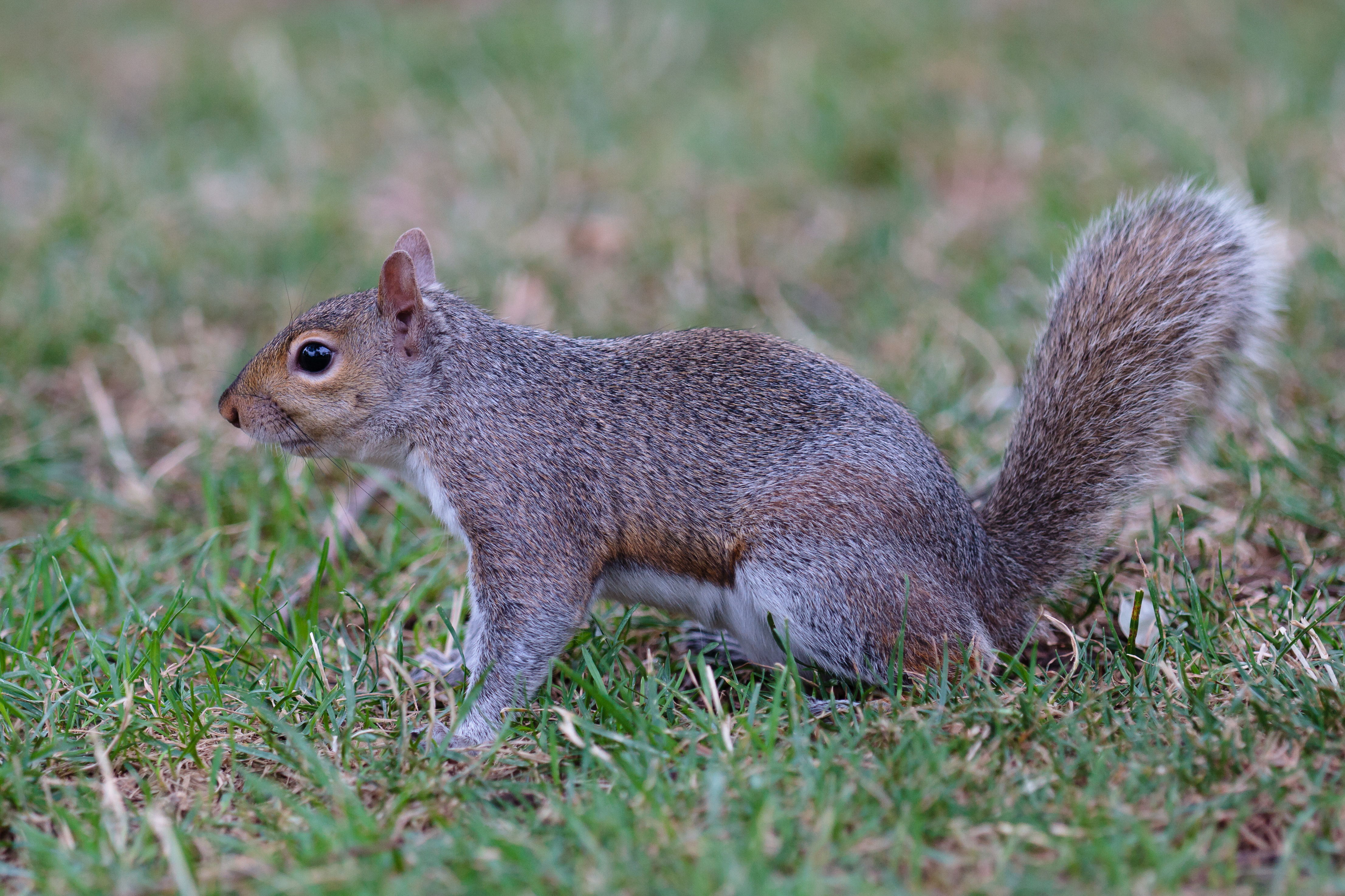 Eastern gray squirrel in Washington, D.C.